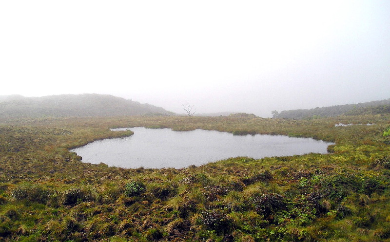 I took this photo August 18, 2005.